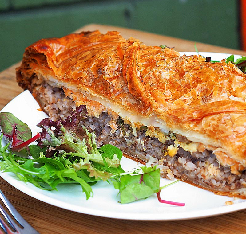 Smoked Salmon and Buckwheat Pie